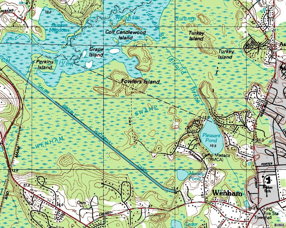 Topographic map of (nearly all) the Salem Beverly Waterway Canal, located in Topsfield and Wenham, Massachusetts, USA.